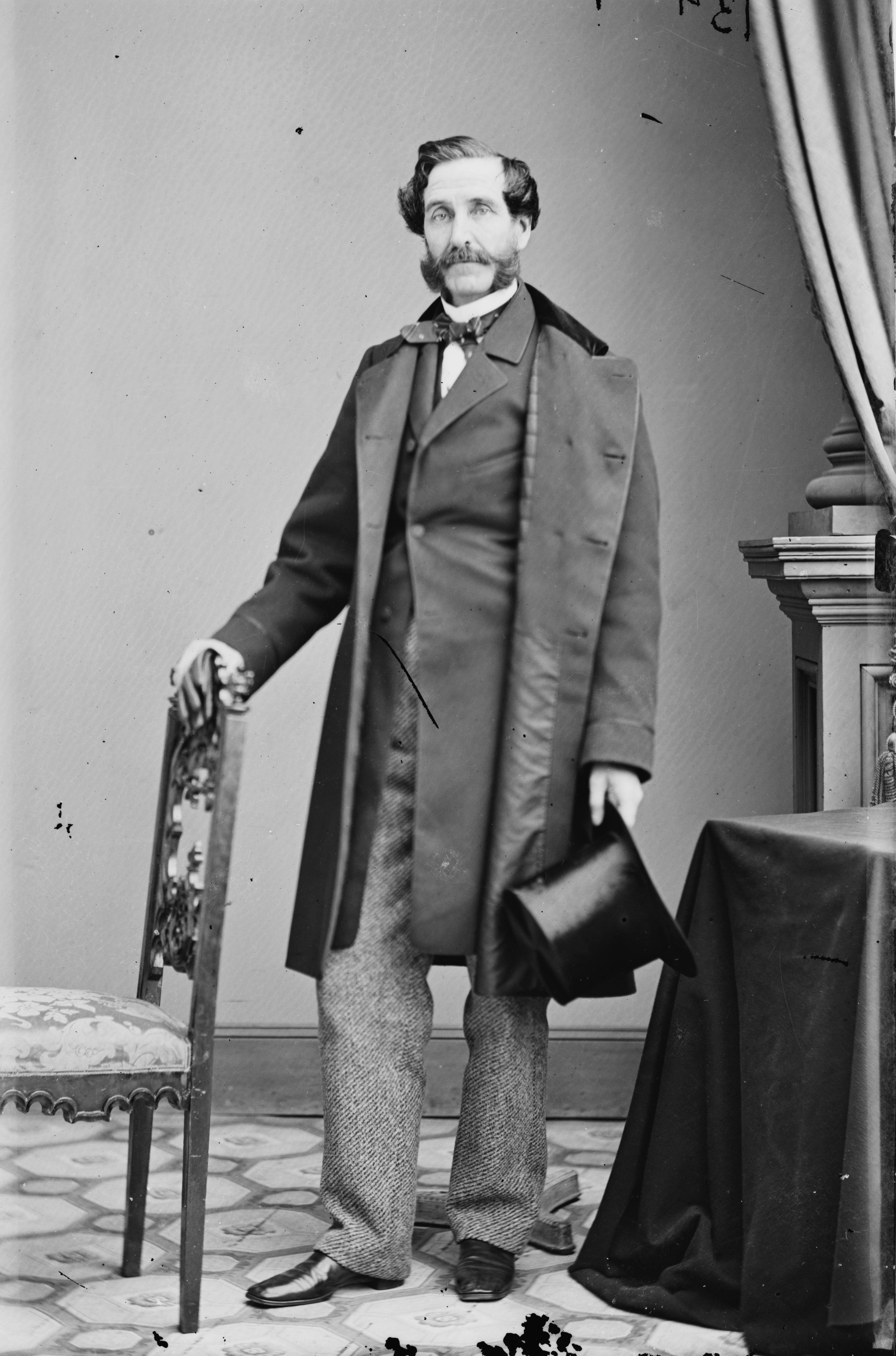 George Opdyke. Library of Congress description: "George Opdyke"